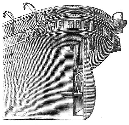 Propeller with two blades mounted on an old ship